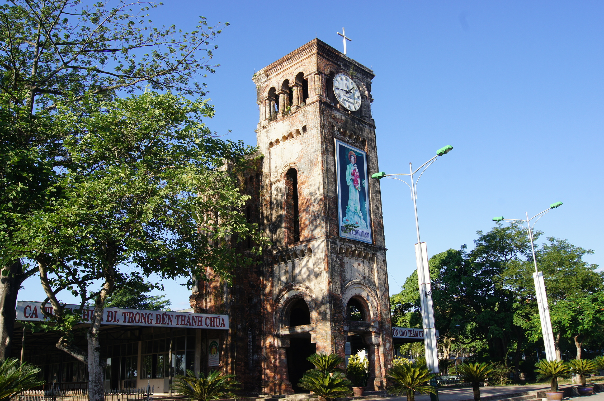 The remains of the Bell Tower of the Church of La Vang after the war